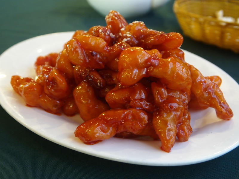 Tángcù lǐji (sweet and sour pork tenderloin)